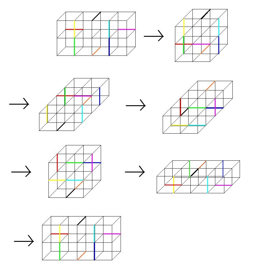 It is the instruction of the toy of variation of 2*2 Rubik's Cube.